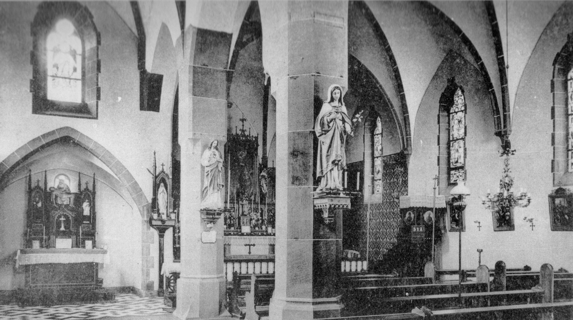 The old catholic church in Bad Soden am Taunus